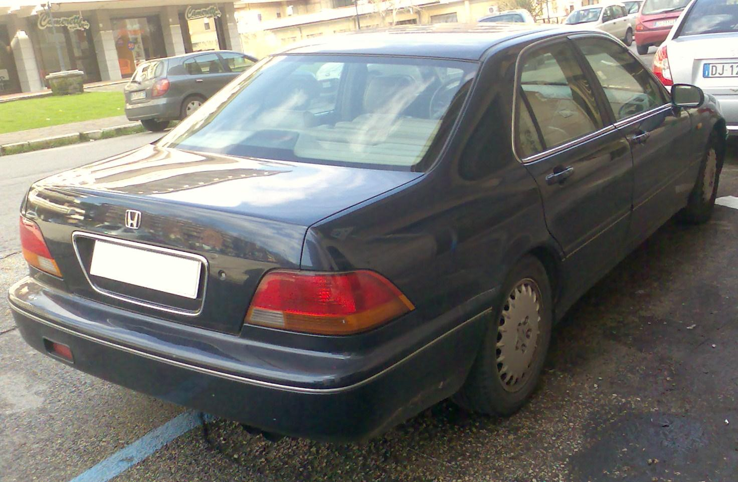 Honda Legend KA9